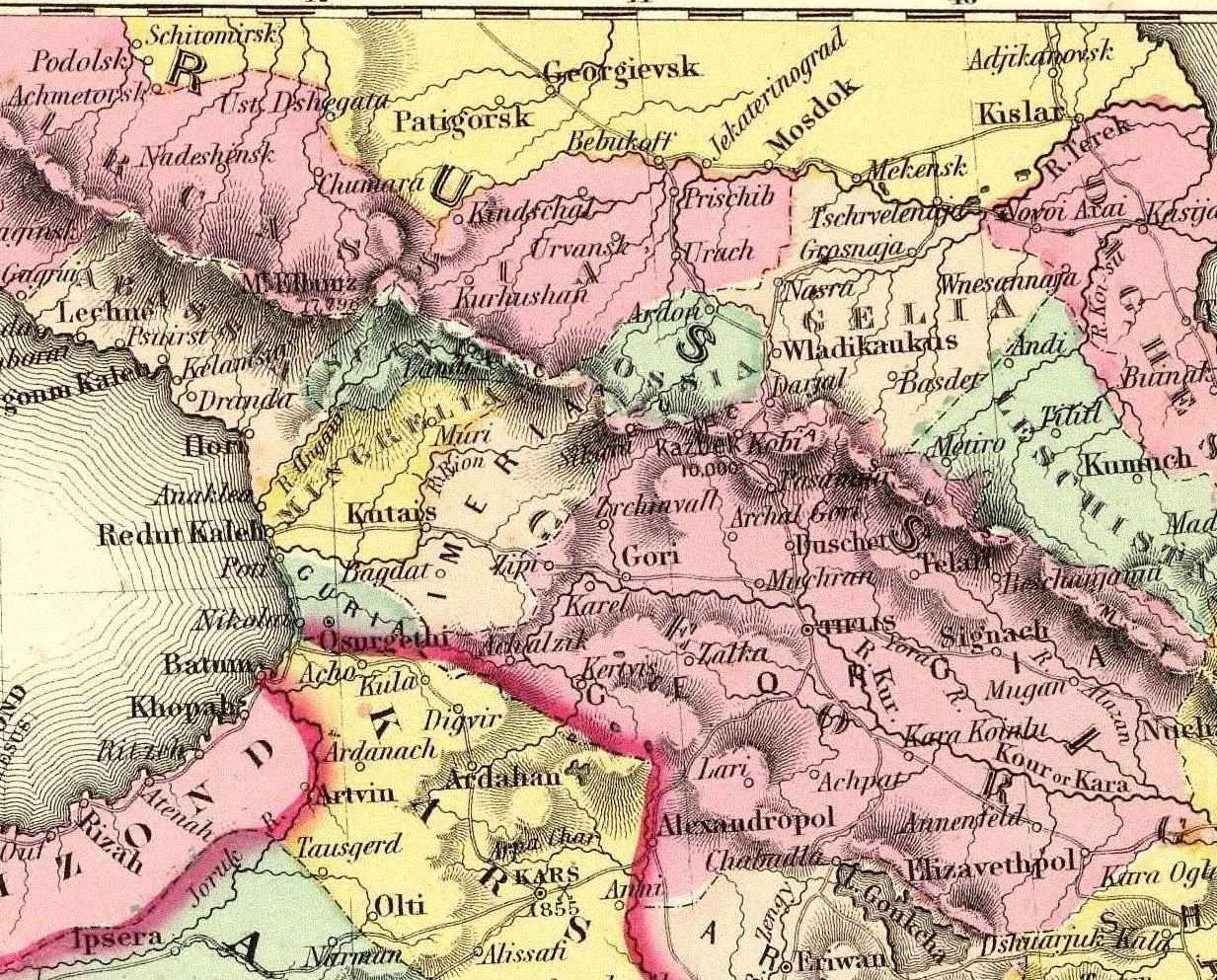 Turkey In Asia And The Caucasian Provinces Of Russia. Published By J.H. Colton & Co. No. 172 William St. New York. Entered ... 1855 by J.H. Colton & Co. ... New York. No. 25